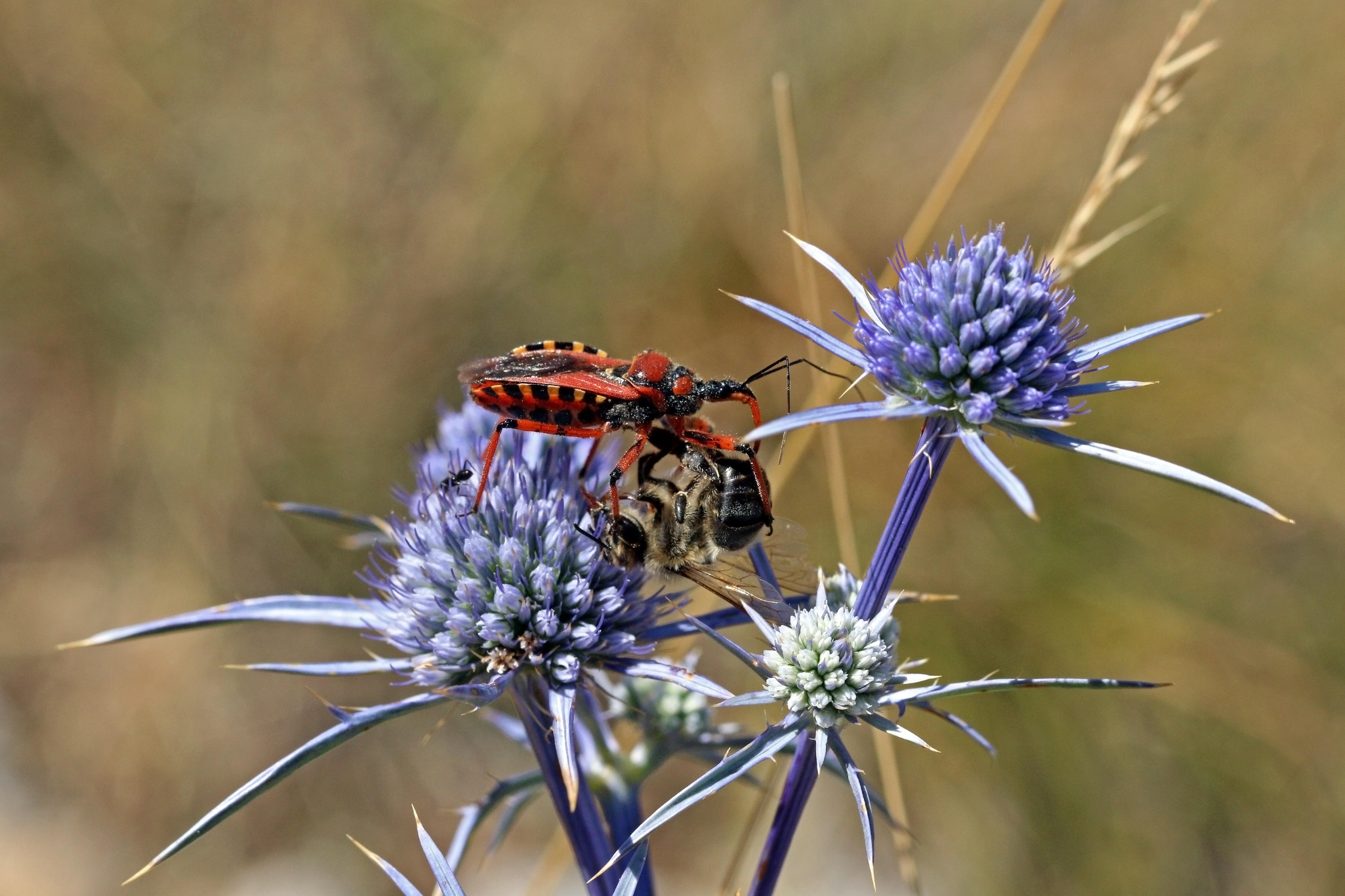 Assassin bug (Rhynocoris iracundus), with bee (Apis ssp) prey on Eryngium sp., Republic of North Macedonia